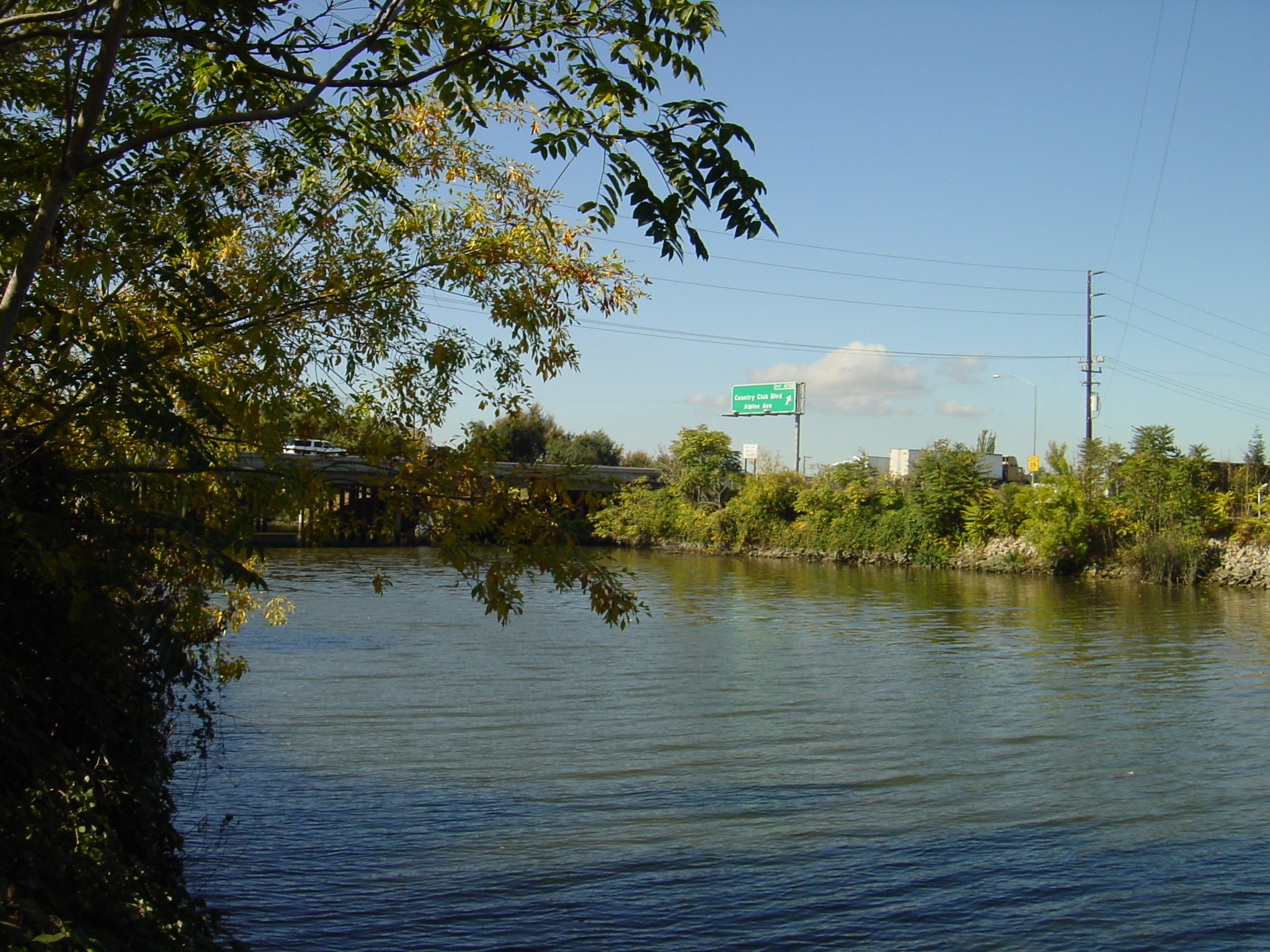 The bridge in the background carries the West Side Freeway over the canal.